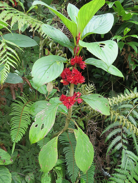 Native to the mountains from Costa Rica to Peru. Photo from near Baez, Ecuador. In context at